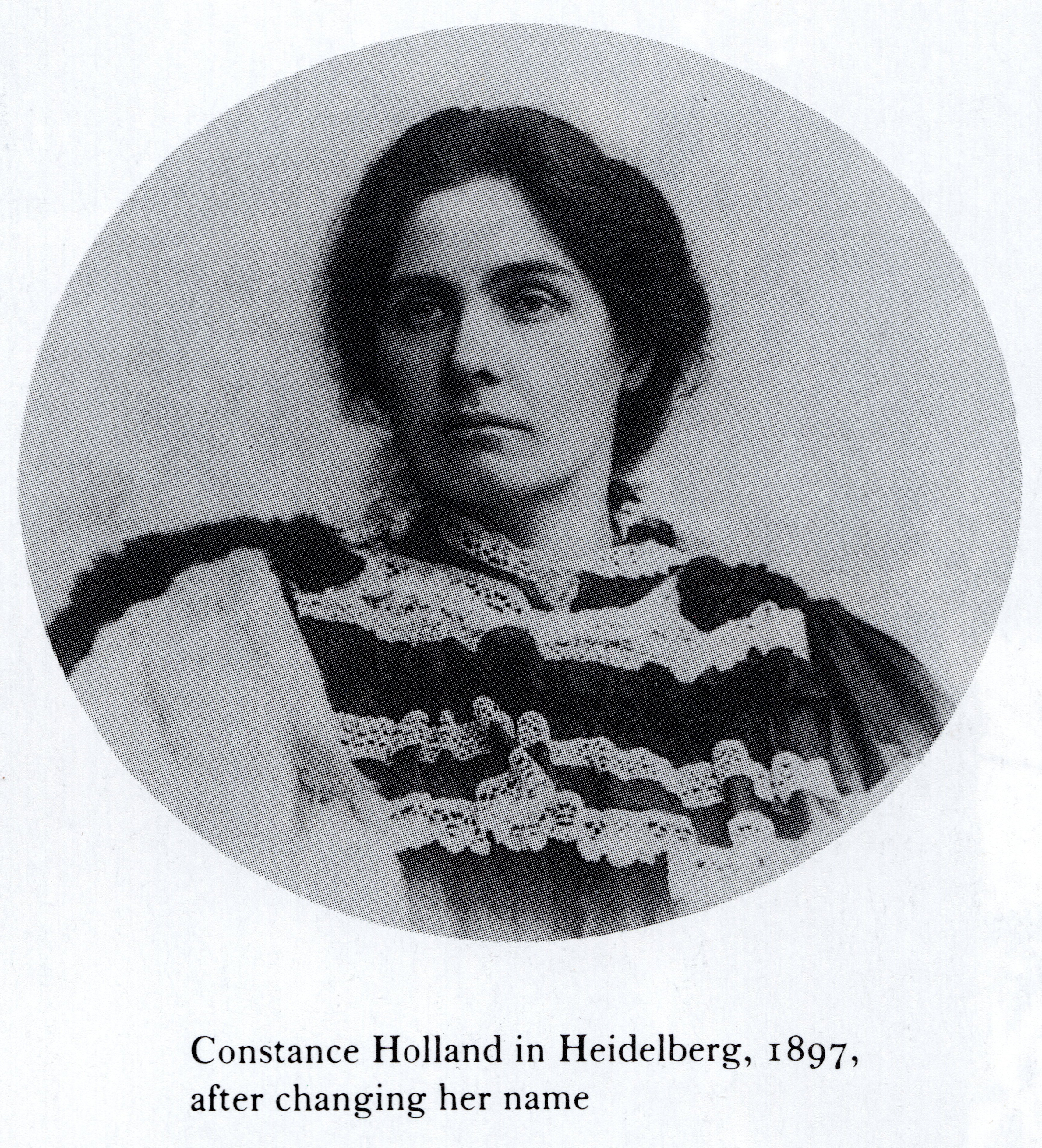 Constance Wilde after changing her name in 1895 into Constance Holland (1897)